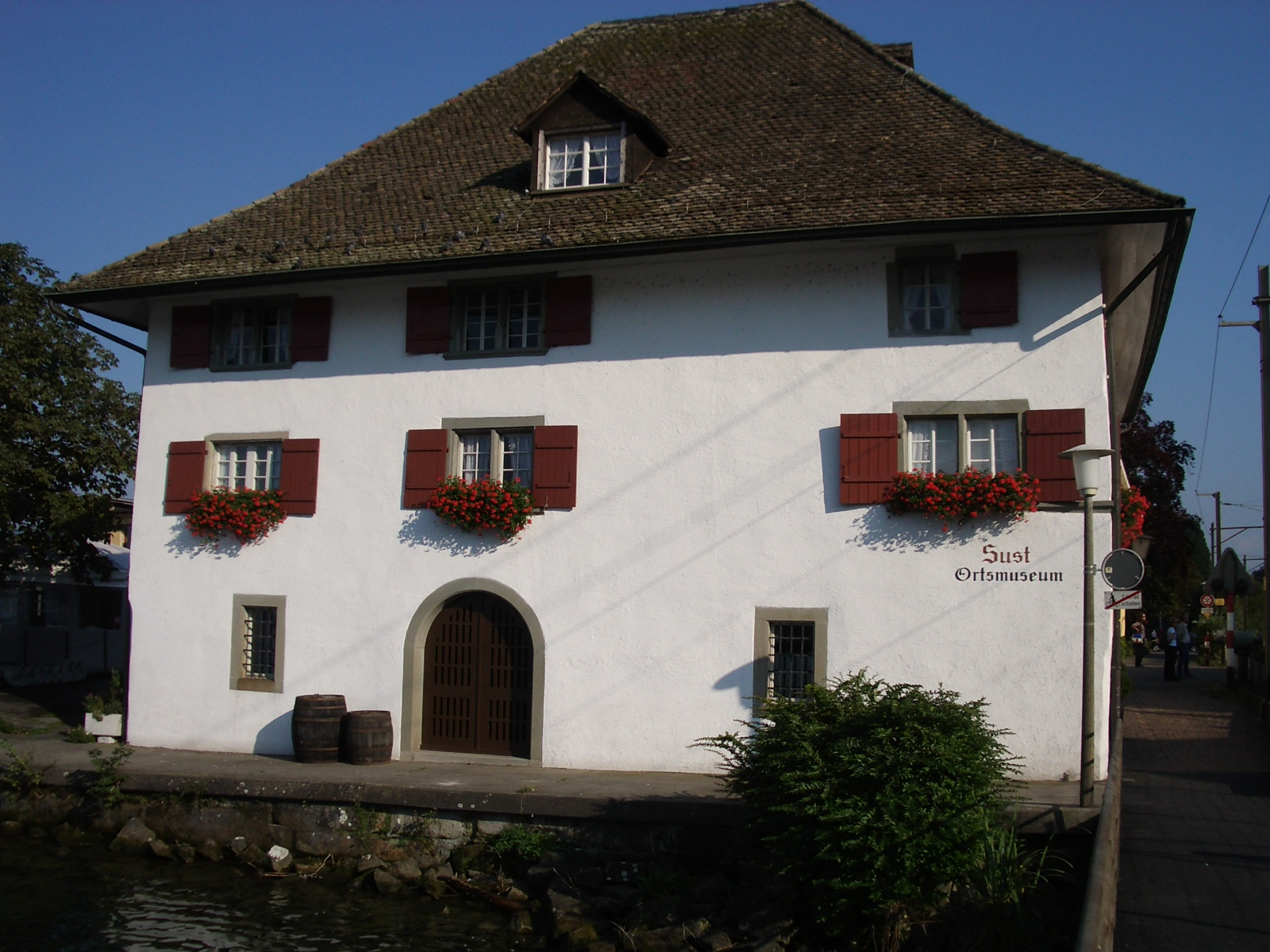 Ancient reloading point "Sust", Horgen / Switzerland self-made, September 2005